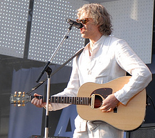 Bob Geldof